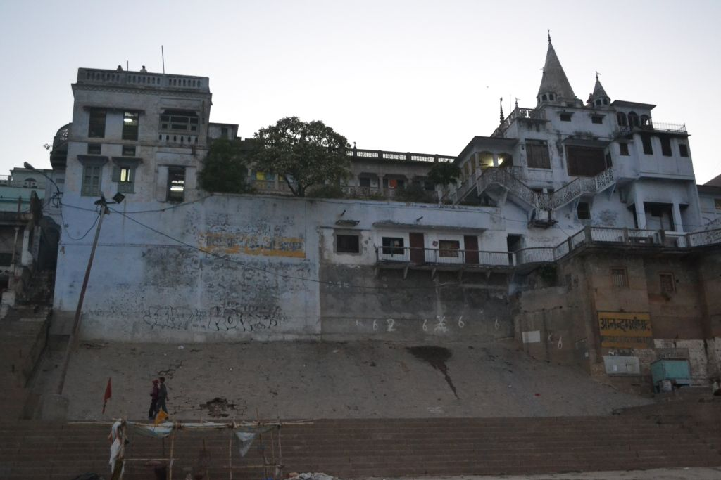 Anandmayi Ghat is one of the ghats situated along the river Ganga in Varanasi.